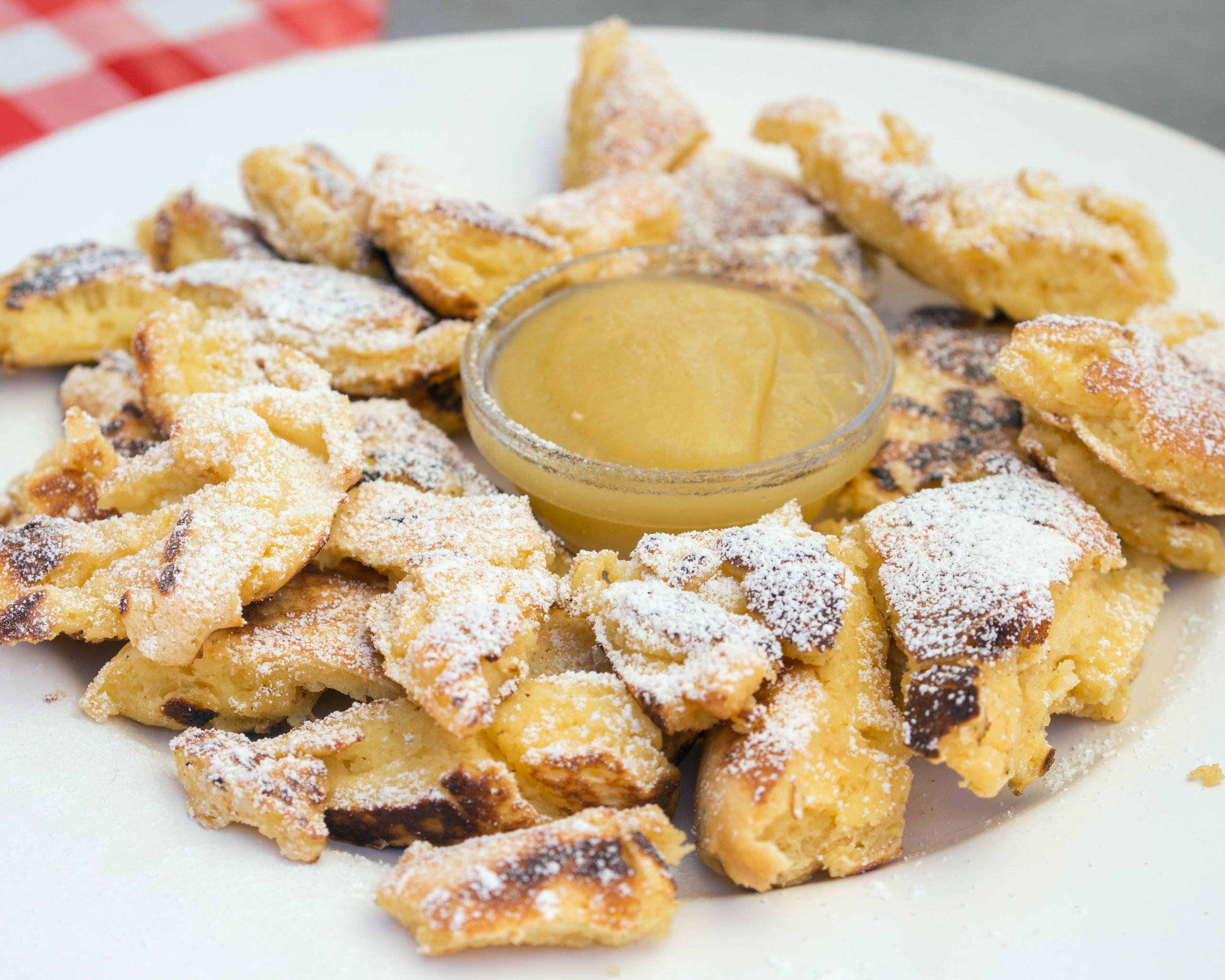 "Kaiserschmarrn mit Apfelsoße" at the Edelweisshütte above Sölden, Tyrol